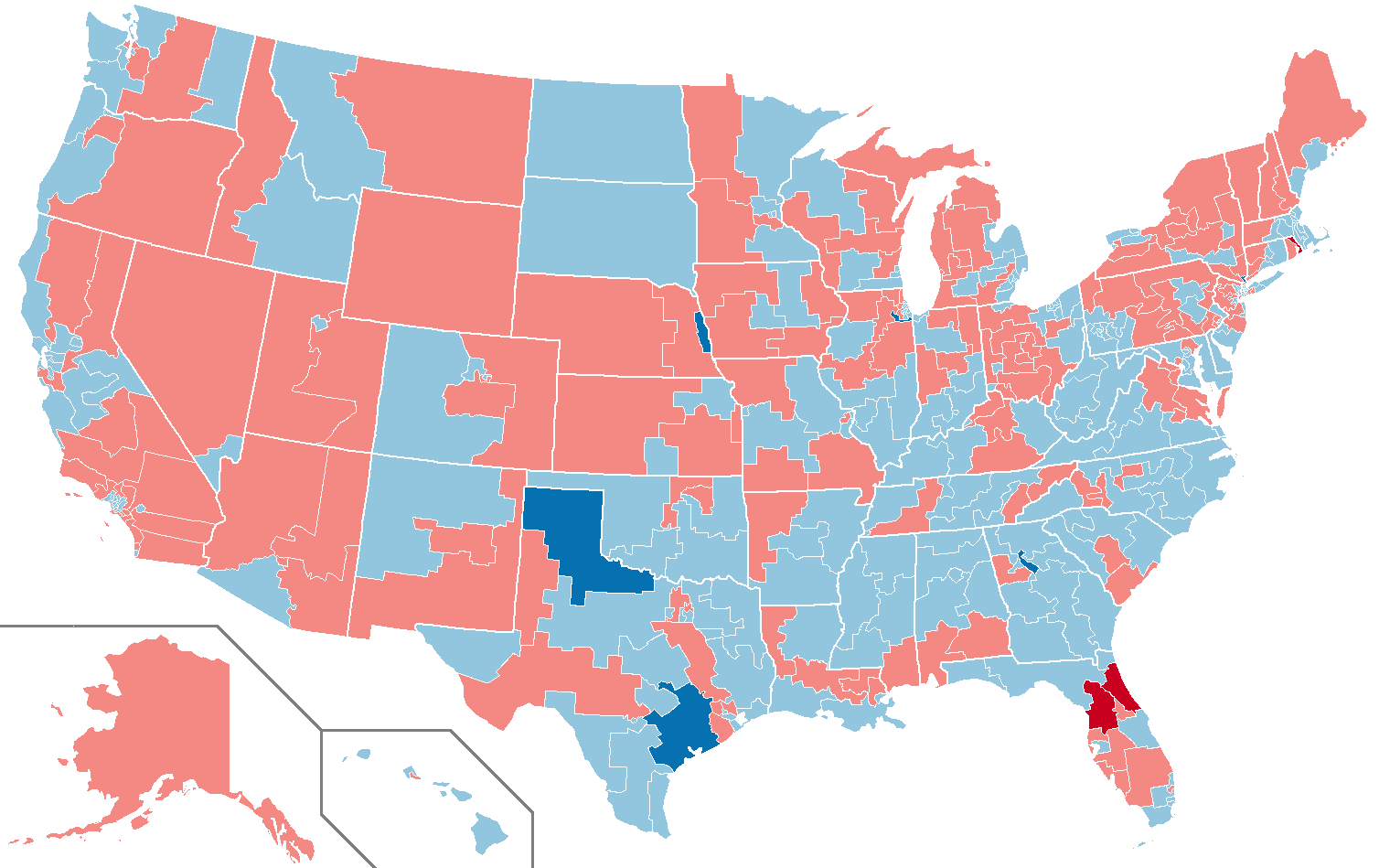 This map shows the results of the 1988 US House Elections.